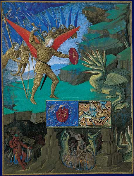 Saint Michael in combat with the dragon - Hours of Étienne Knight, enluminées by Jean Fouquet, London, Upton House, Collection Lord Bearsted, Cat. n°184. The scene is inspired by chapter 12 of the Apocalypse which describes the combat of Michel saint against the dragon, symbol of the forces of the Evil. Assisted by the angels, of which one holds its heaume and its lance, Michel raises its sword on the monster to seven heads in front of a mountainous and fantastic landscape. Downwards the caves of the hell open where Satan chairs the torture of the hearts. On the right, one sees in the medium of the flames the dragon from now on pushed back by the archangel.